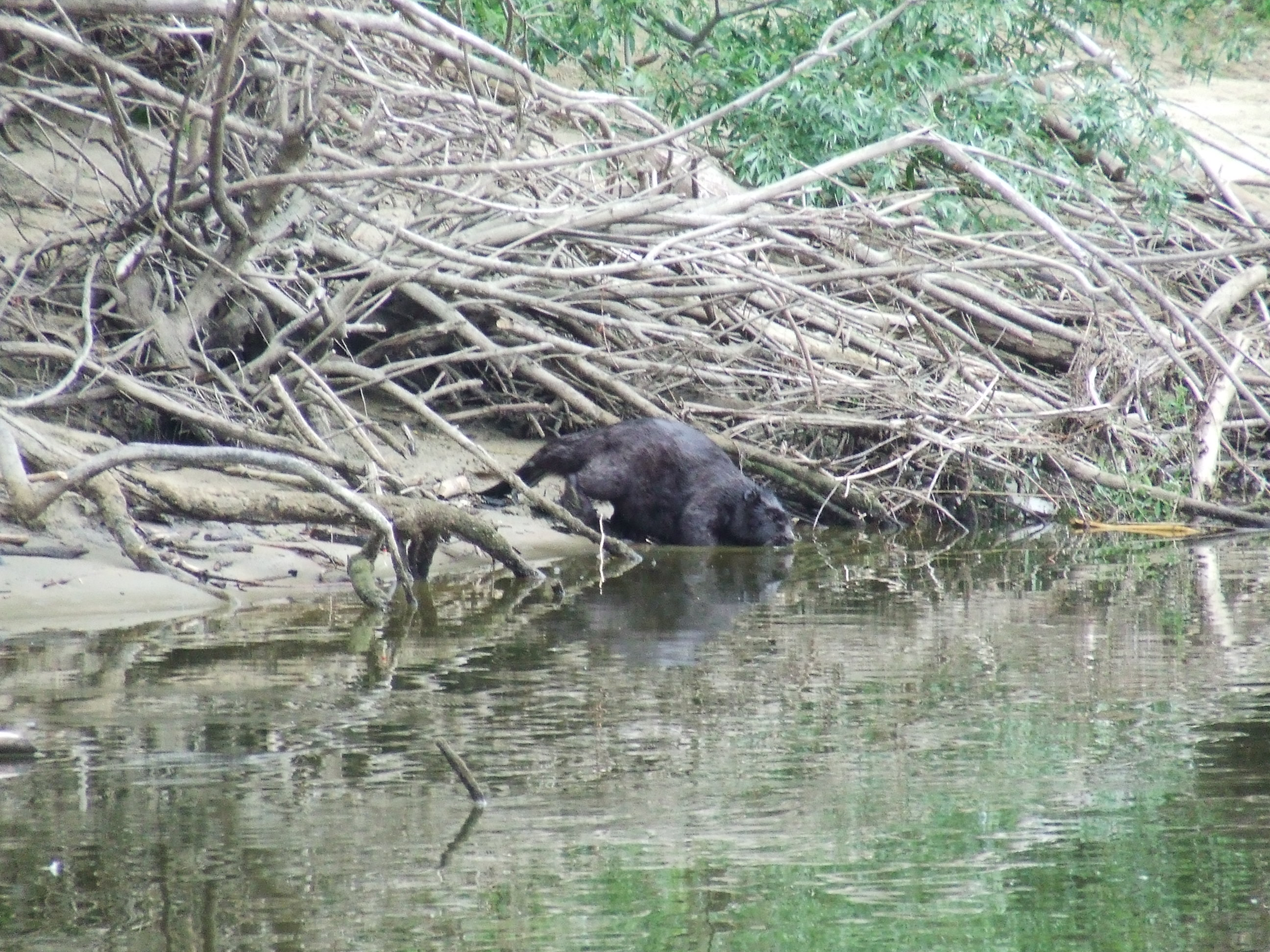 Beaver lodge, Wisla, Warsaw